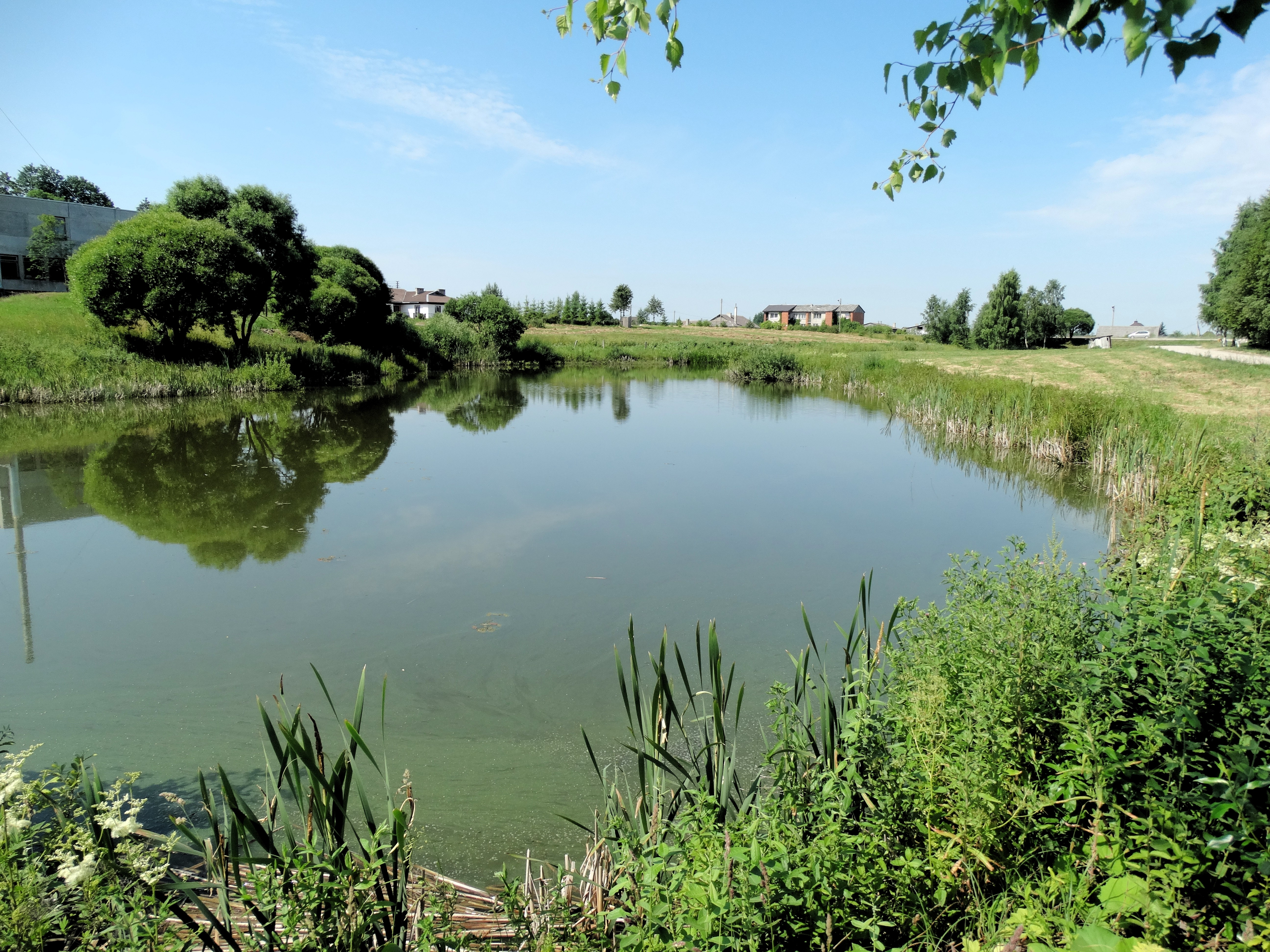 Viekšnaliai, Telšiai District, Lithuania